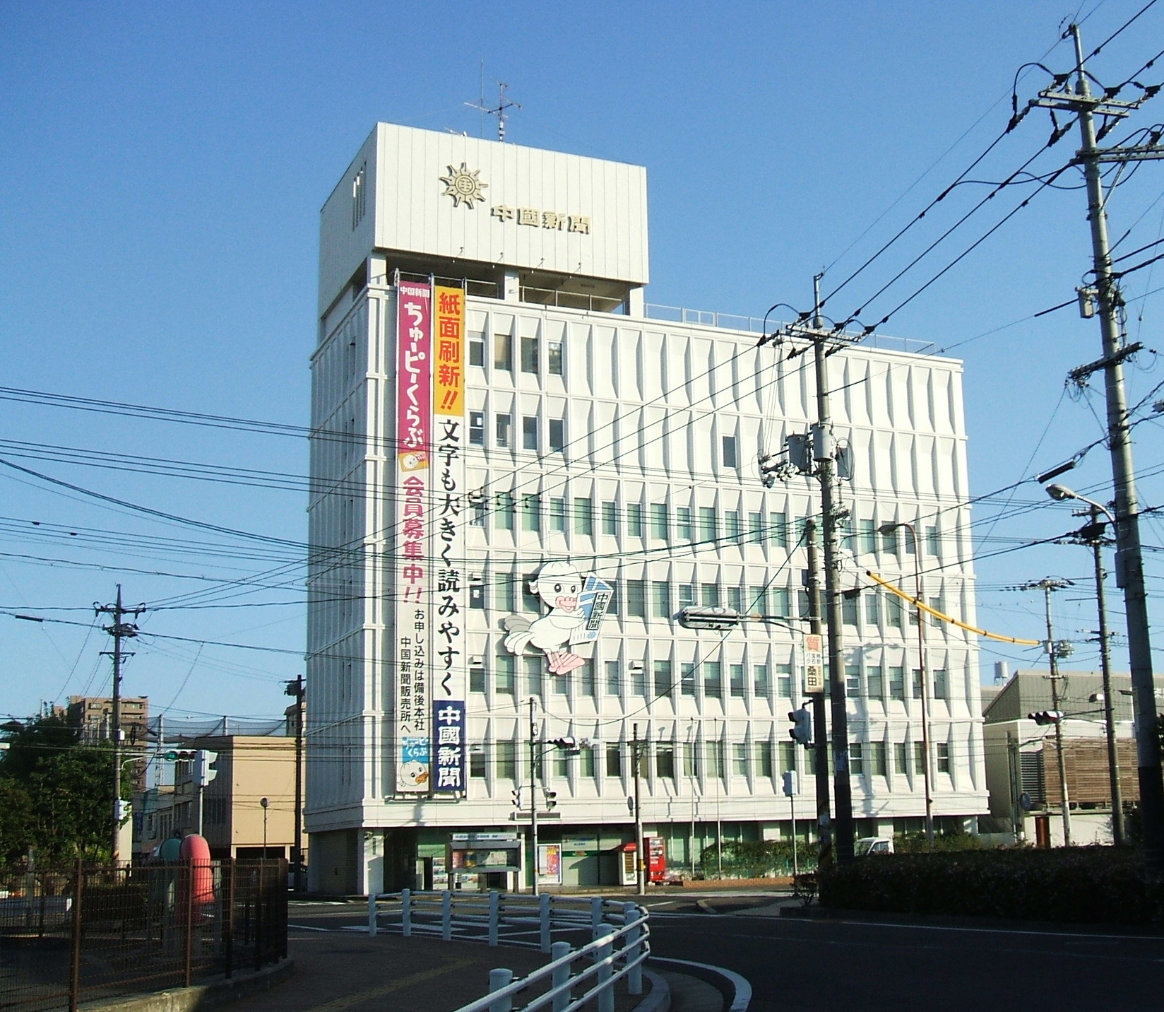 Chugoku shinbun Bingo